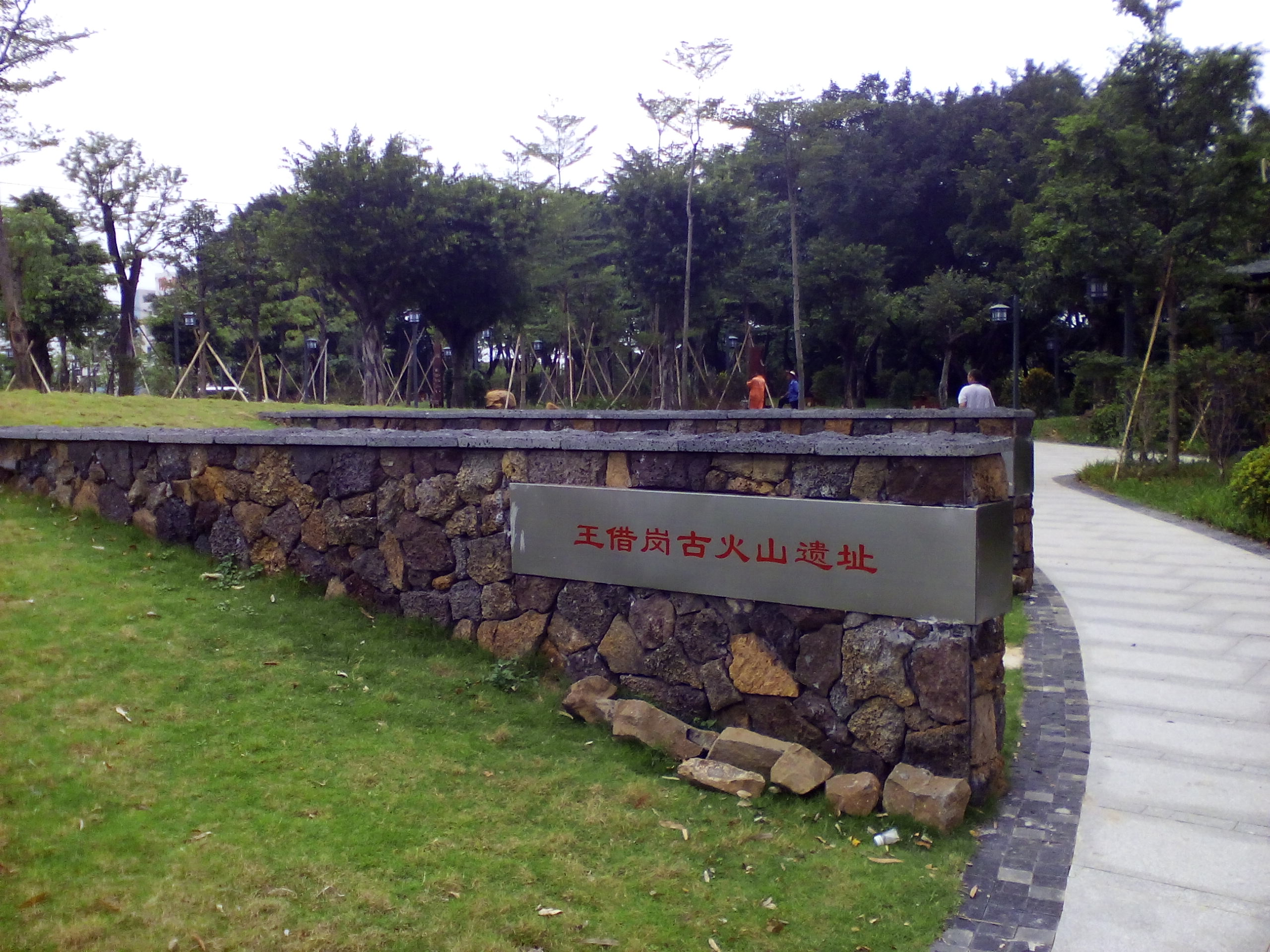 中文（中国大陆）: Scientific Activities Area, Wangjiegang Park in Chancheng District, Foshan City, Guangdong Province, China